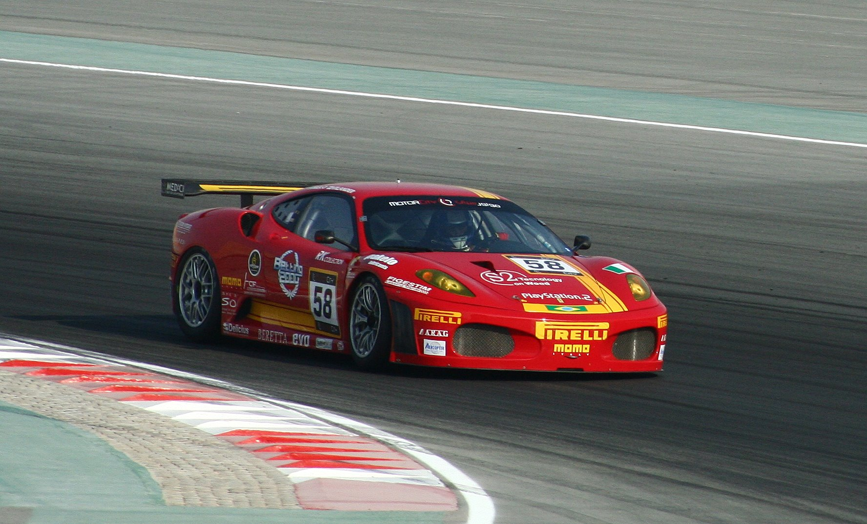 The AF Corse Ferrari F430 at the 2006 FIA GT Motorcity 500